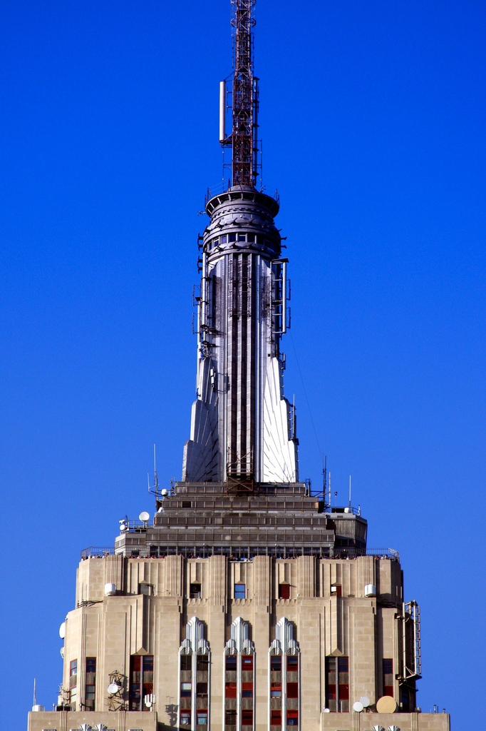 Observation decks of the Empire State BuildingThe title of the image at the source is: Empire state hat.